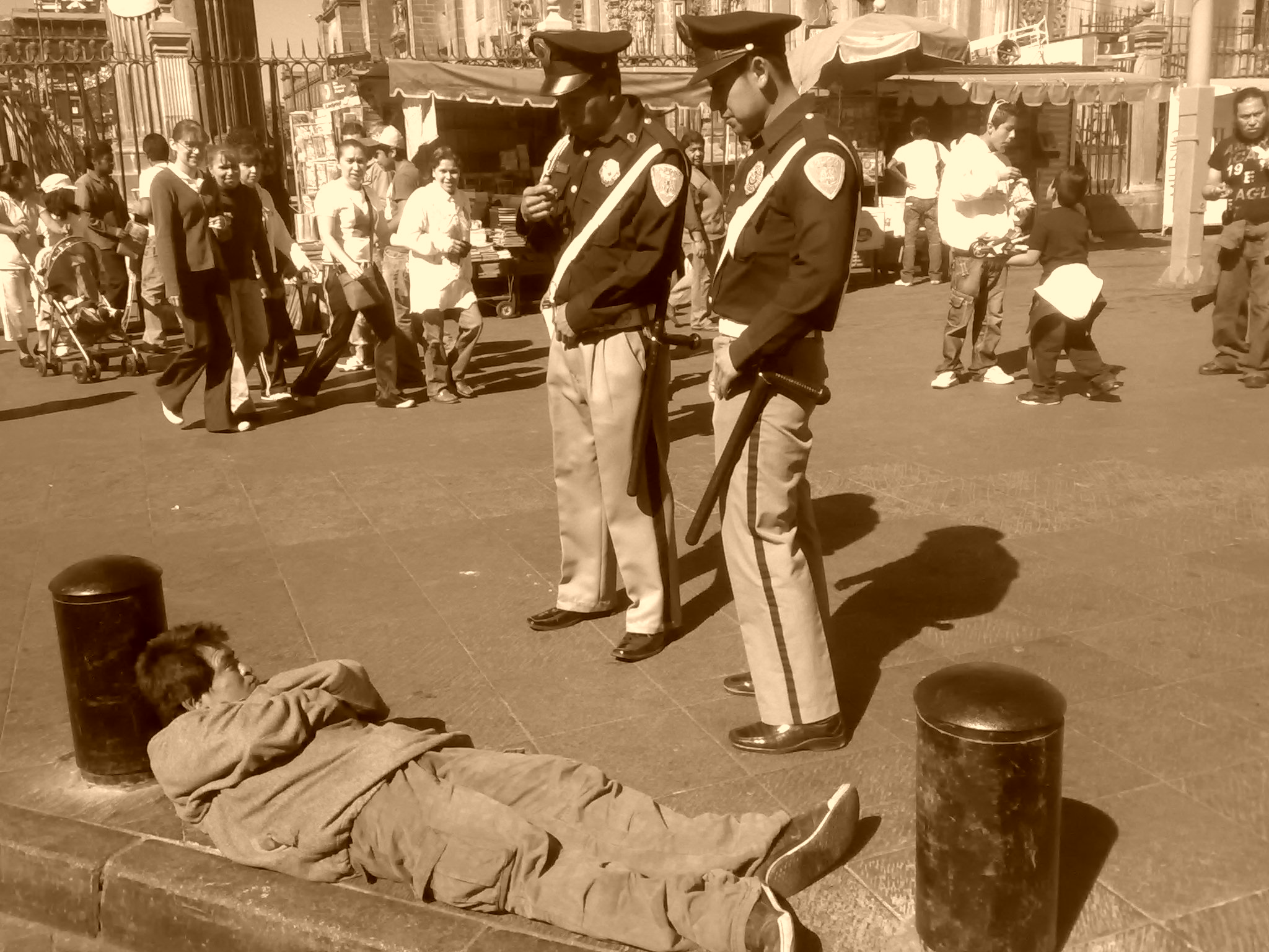 no alcance a tomar cuando lo estaban pateando